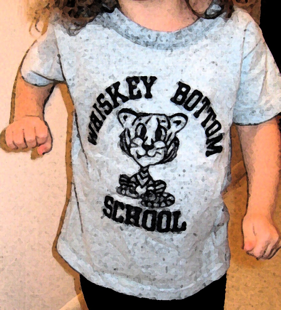 Whiskey Bottom Elementary School shirt